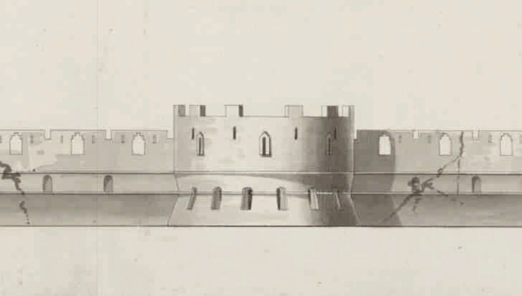 Round tower of Kitai-gorod. Moscow.